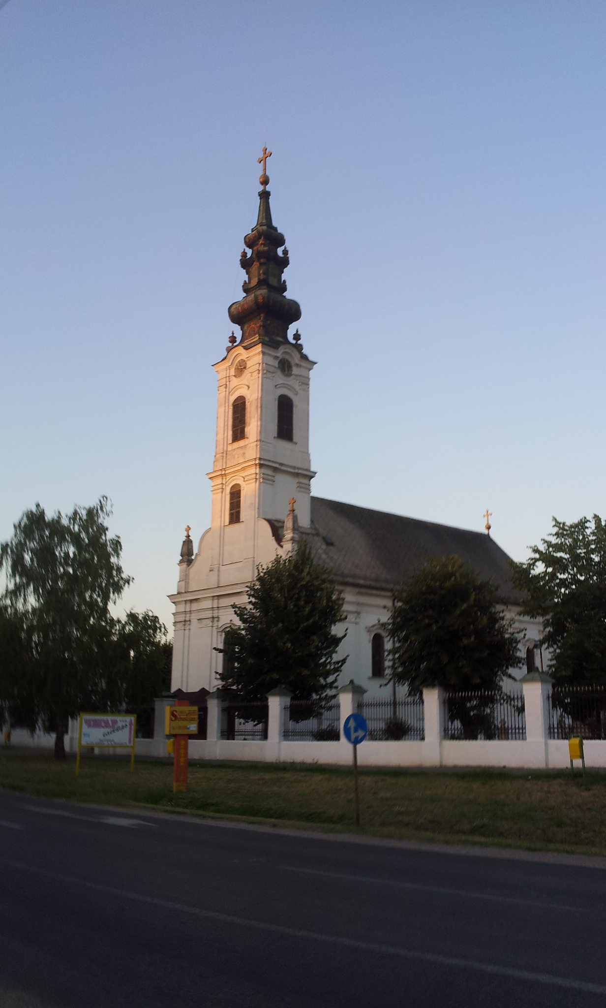 Bačka Palanka (Serbia), Serbian orthodox church